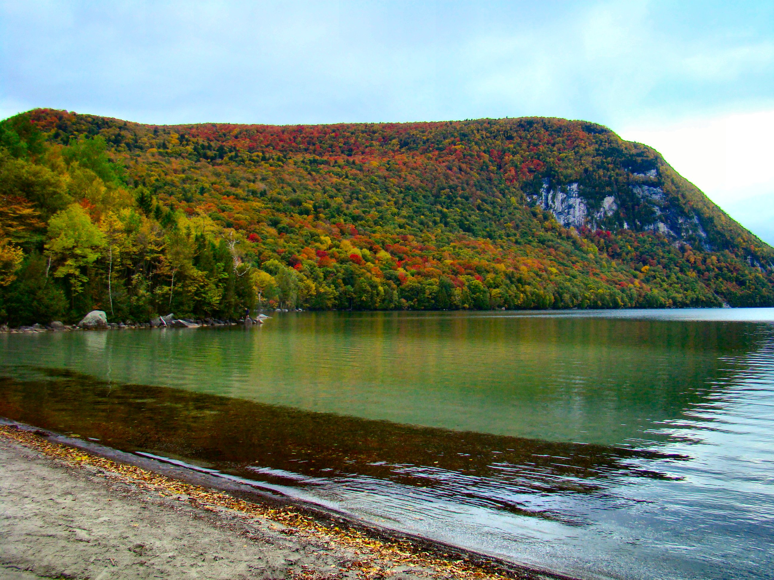 Mt Hor Flanks the Western Side of Lake Willoughby